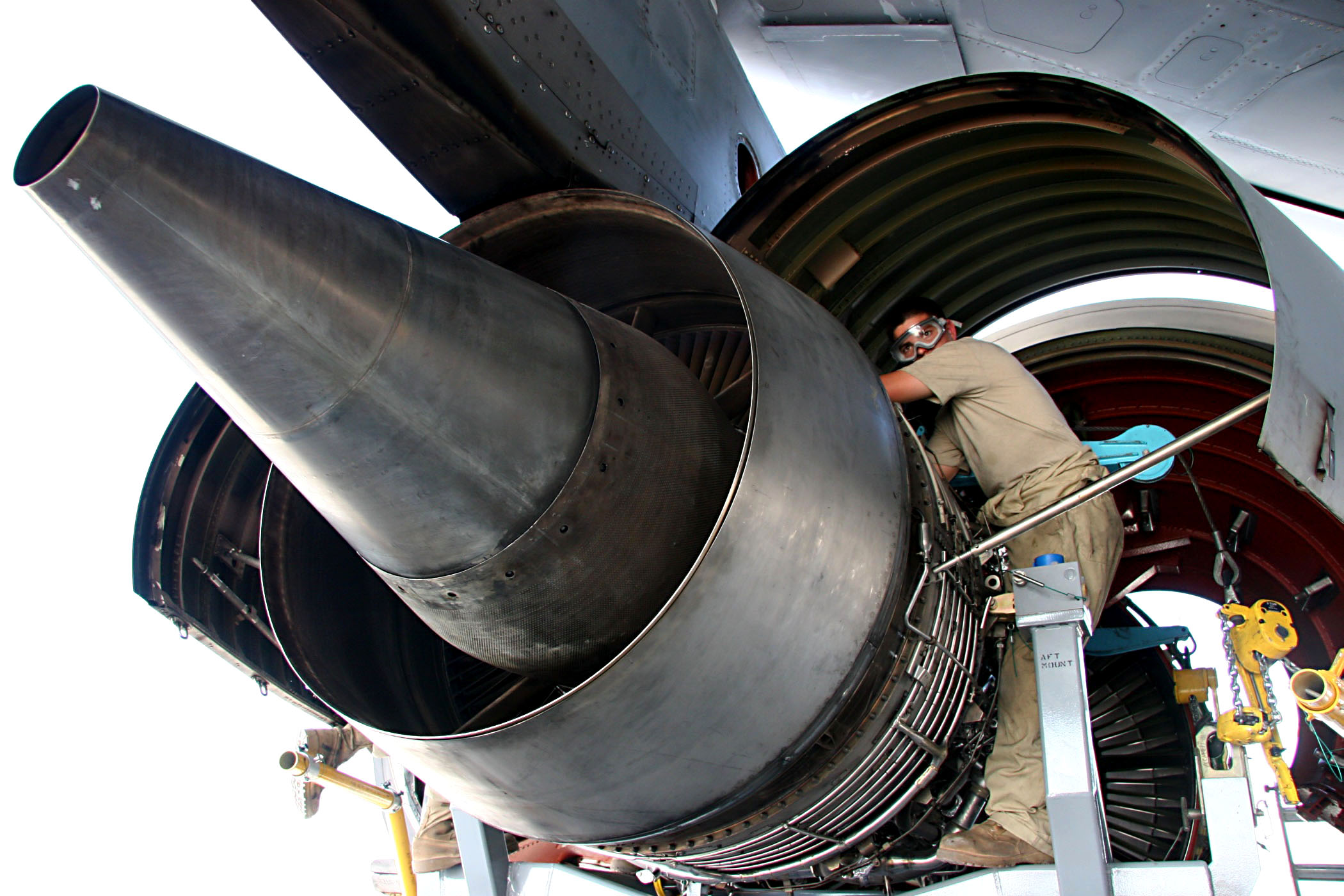 Airman 1st Class Louis Martens installs safety wires on the engine mounts of a KC-10 Extender engine Nov. 23 prior to installing the engine on the aircraft. Airman Martens is with the 380th Expeditionary Aircraft Maintenance Squadron at an air base in Southwest Asia. Original description can be found here